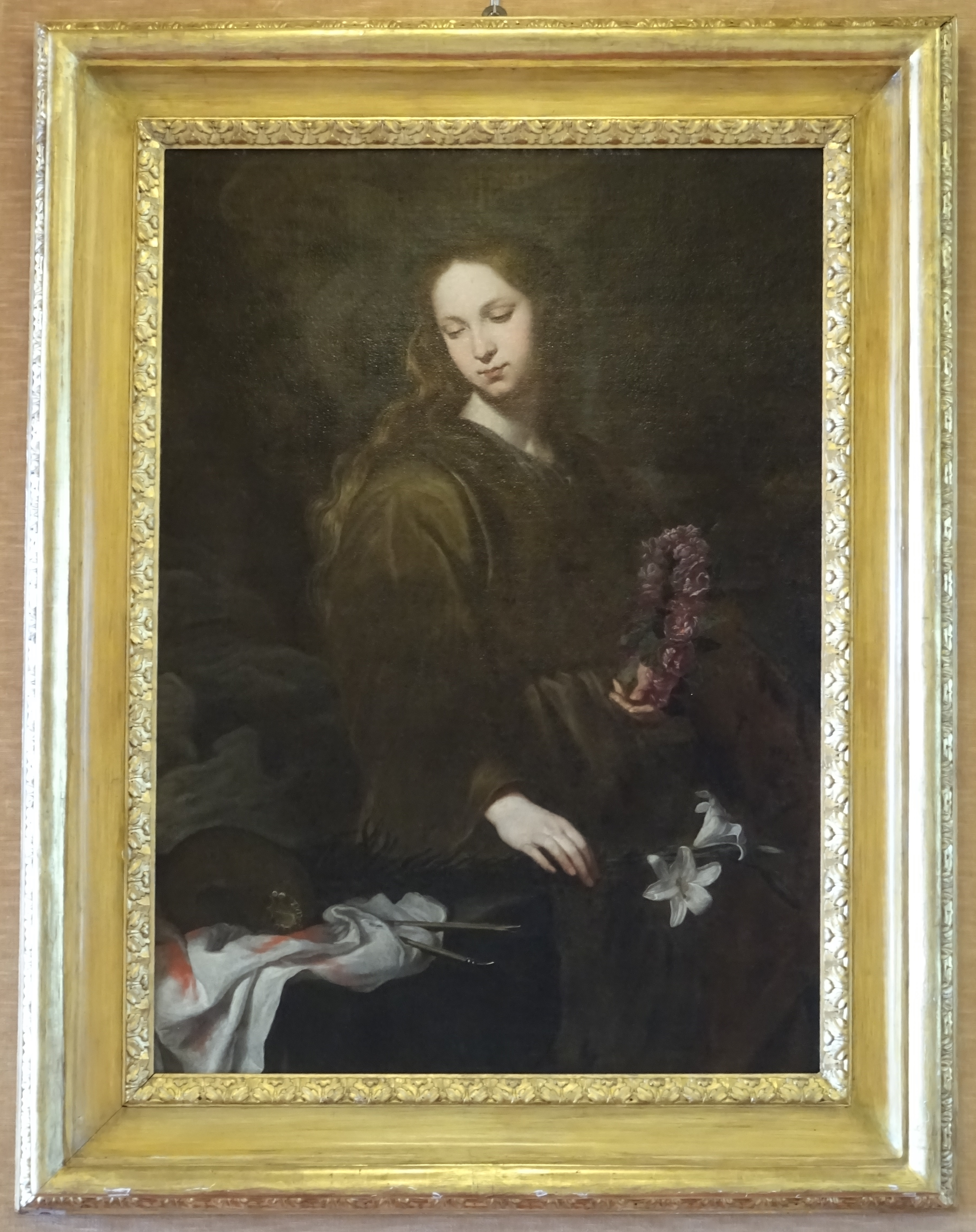 Santa Rosalia by Geronimo Gerardi (XVII century). Collection of Banca Carige